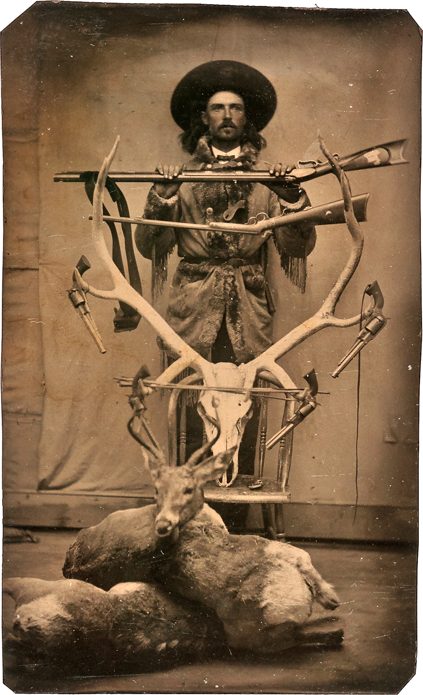 Sixth Plate Tintype of a Young Buffalo Bill Cody Posed with Guns and Game. Published in Wilson & Martin's Buffalo Bill's Wild West: An American Legend (p. 9), where it is described as believed to have been taken at Fort McPherson, Nebraska, ca 1871, and illustrates Cody's flair for showmanship even before he became a performer.